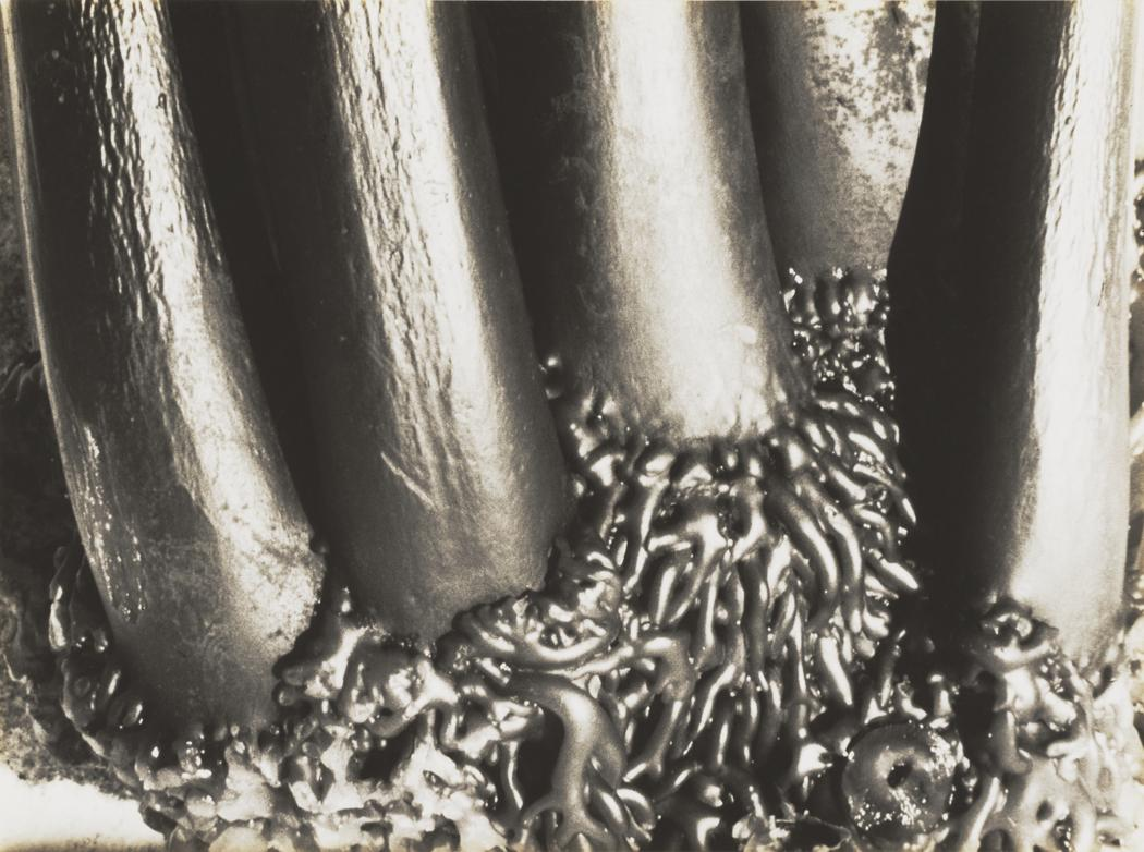 base of several kelp stems, vein-like matrix below